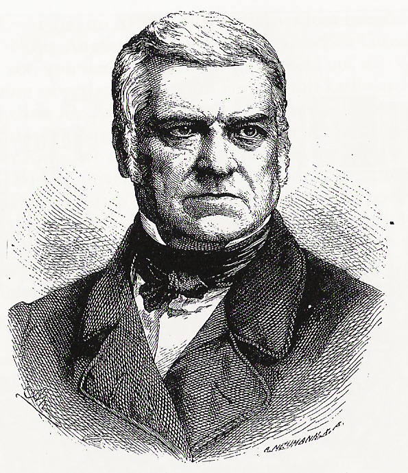 Image of Augustin Keller (1805 - 1883), Swiss politician from the Canton of Aargau, co-founder of the Old-Catholic Church (Christkatholische Kirche)